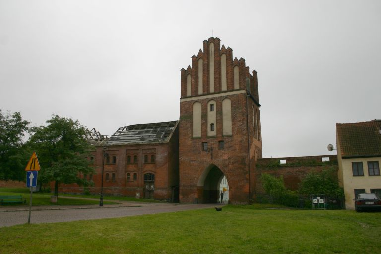 Pasłęk - Stone Tower.